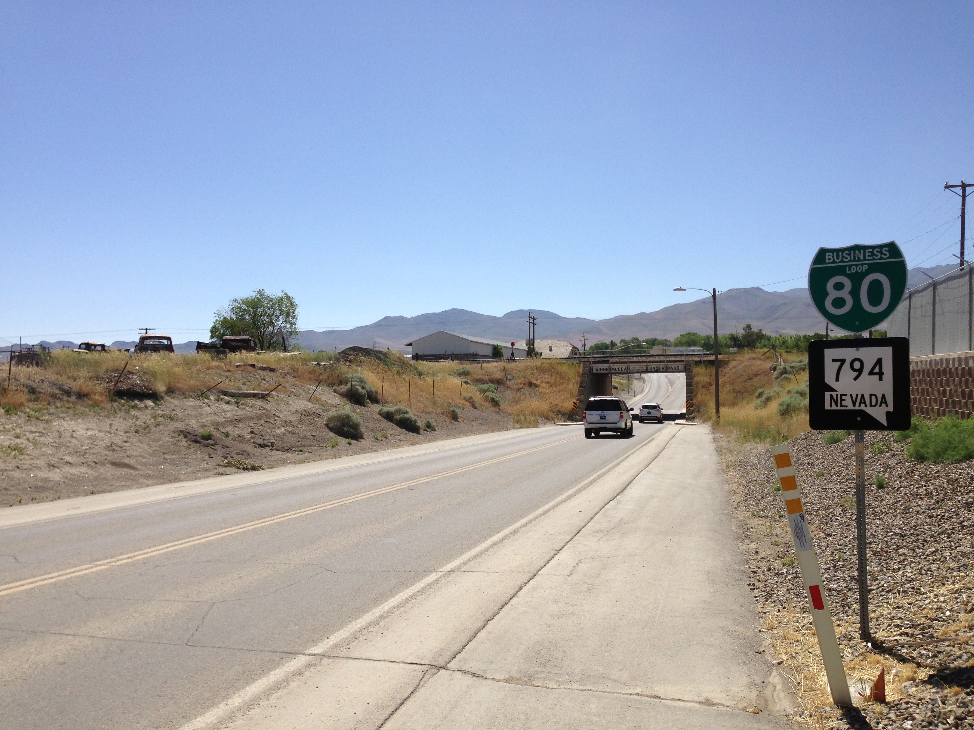 First reassurance signs along eastbound Nevada State Route 794 (East Winnemucca Boulevard) in Winnemucca, Nevada